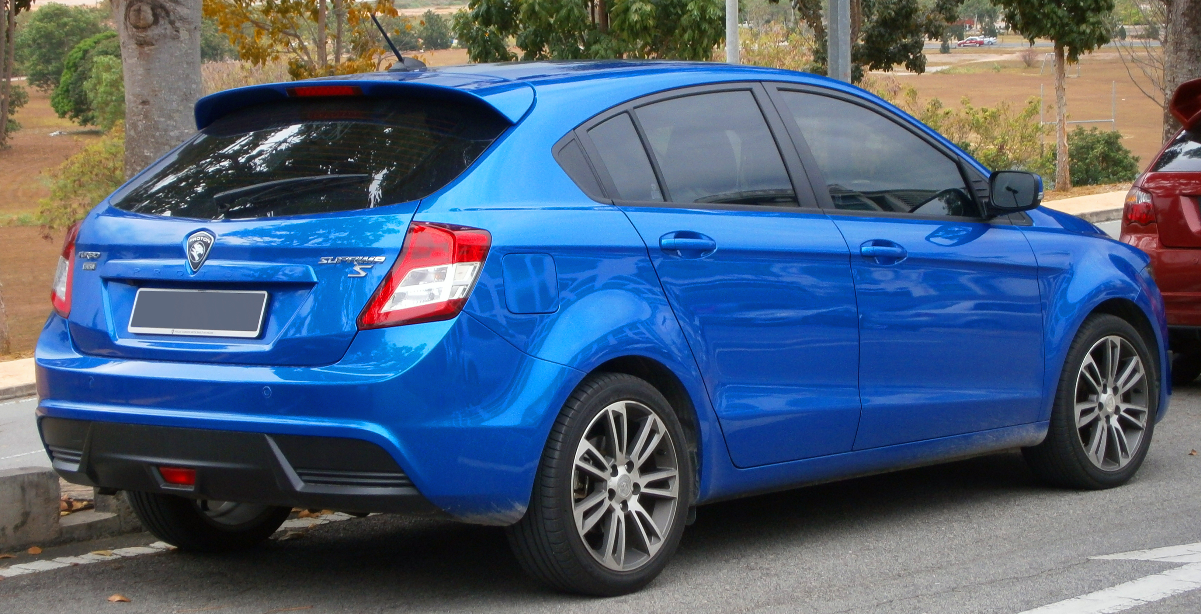 2013 Proton Suprima S Premium in Cyberjaya, Malaysia. Colour : Atlantic Blue Designed & Assembled in Malaysia